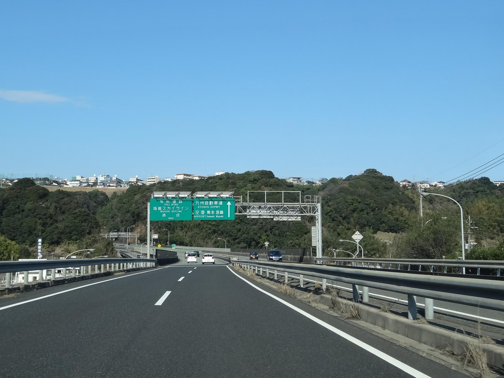 Kagoshima Interchange, the end point of the Ibusuki Skyline and the Kyushu Expressway in Kagoshima City, Japan